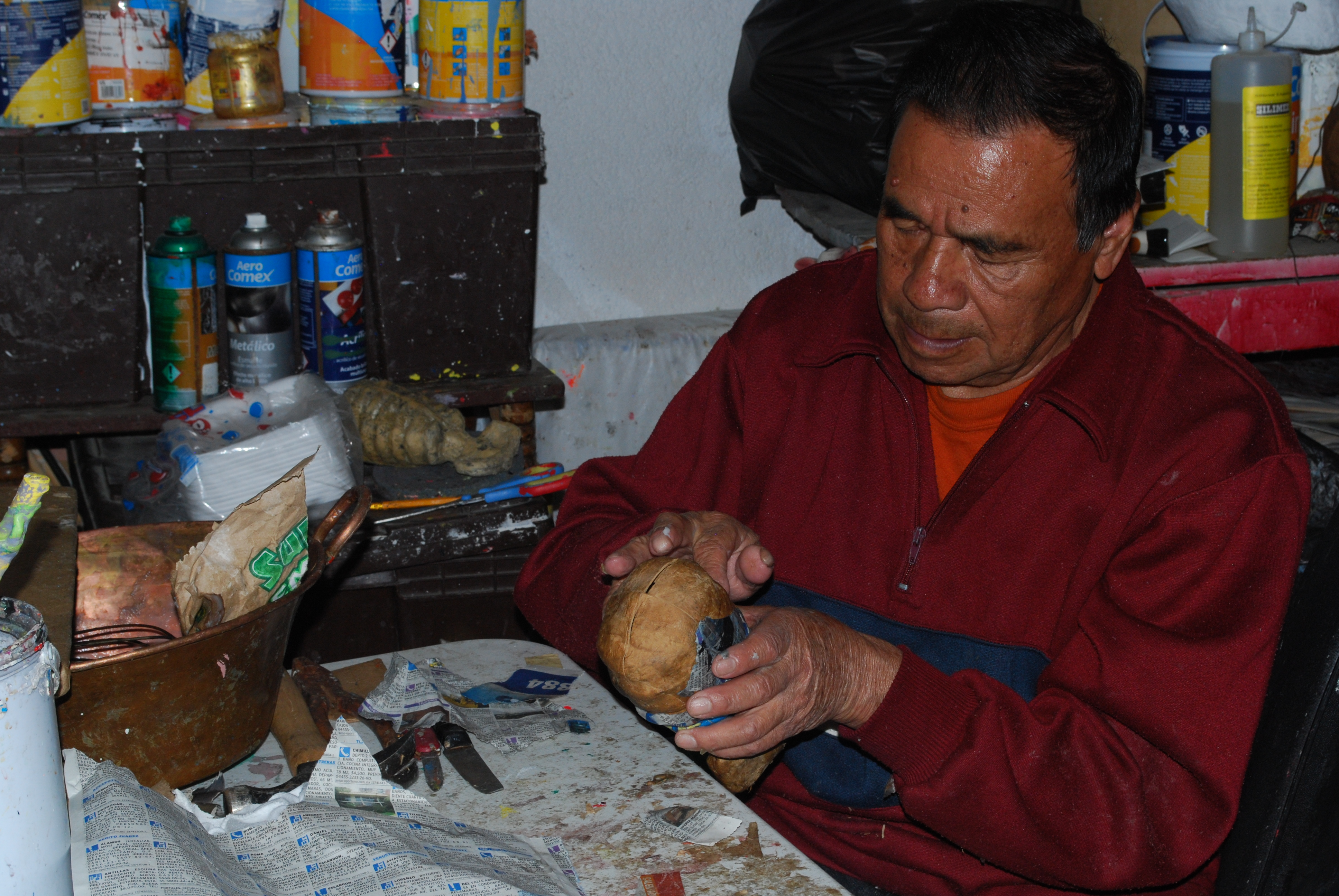 Felipe Linares at his family's workshop in Mexico City